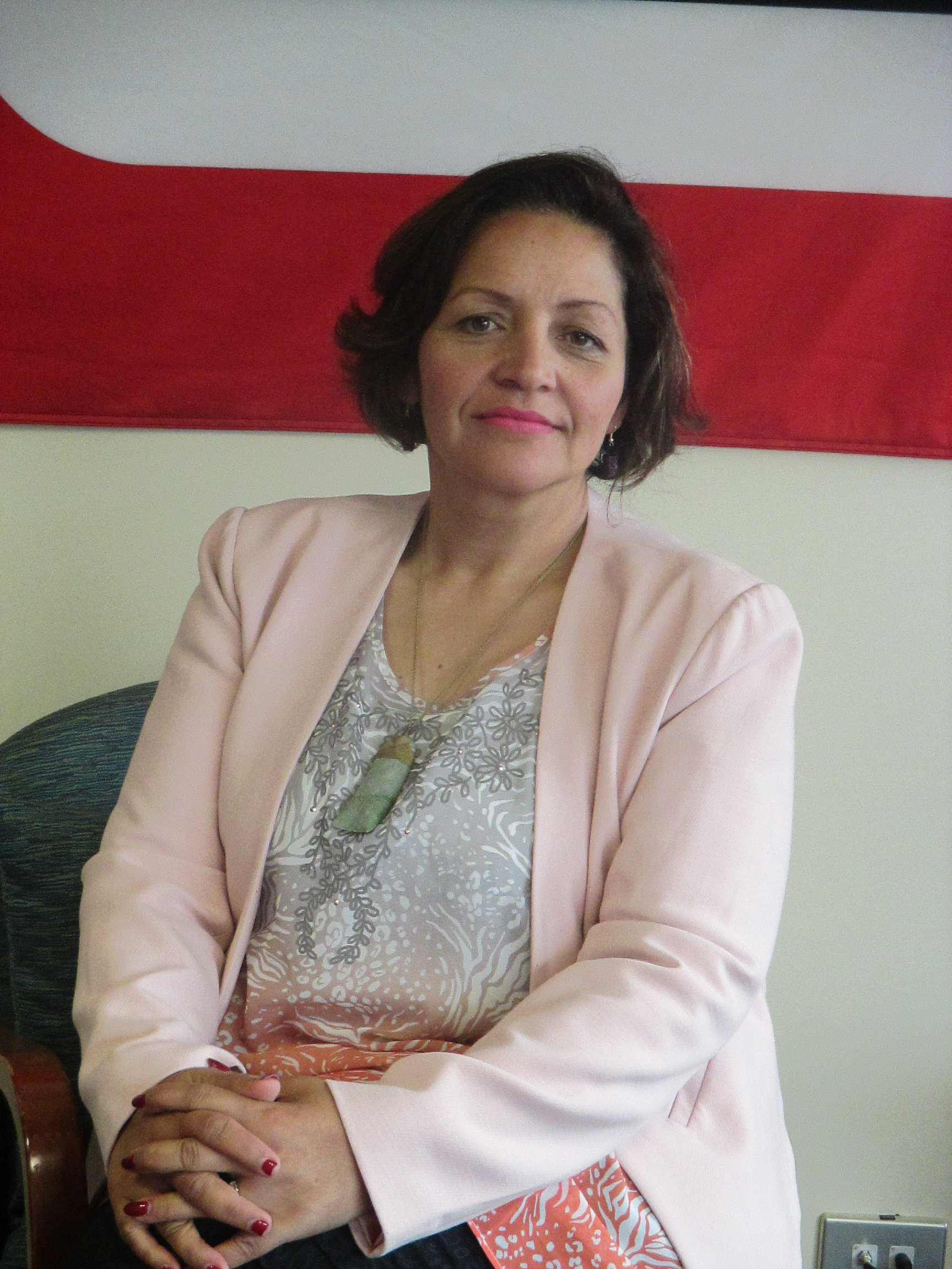 A portrait taken of Marama Fox, a year after she became Maori Party co-leader. The portrait was taken in her offices in Bowen House, Parliament, Wellington, New Zealand.